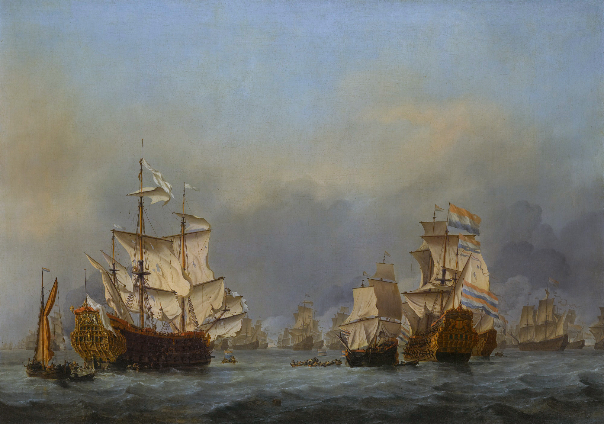 The surrender of the Royal Prince during the Four Days' Battle, 1st -4th June 1666